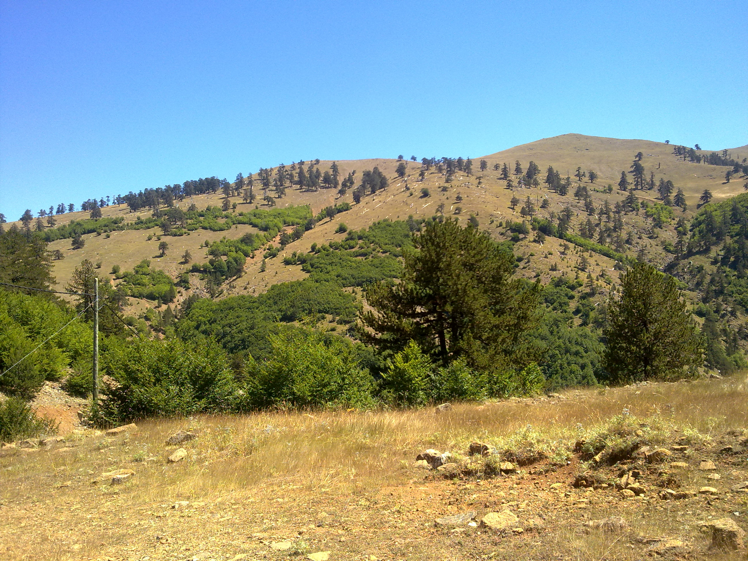 This is a photography of Natura 2000 protected area with ID GR1310001